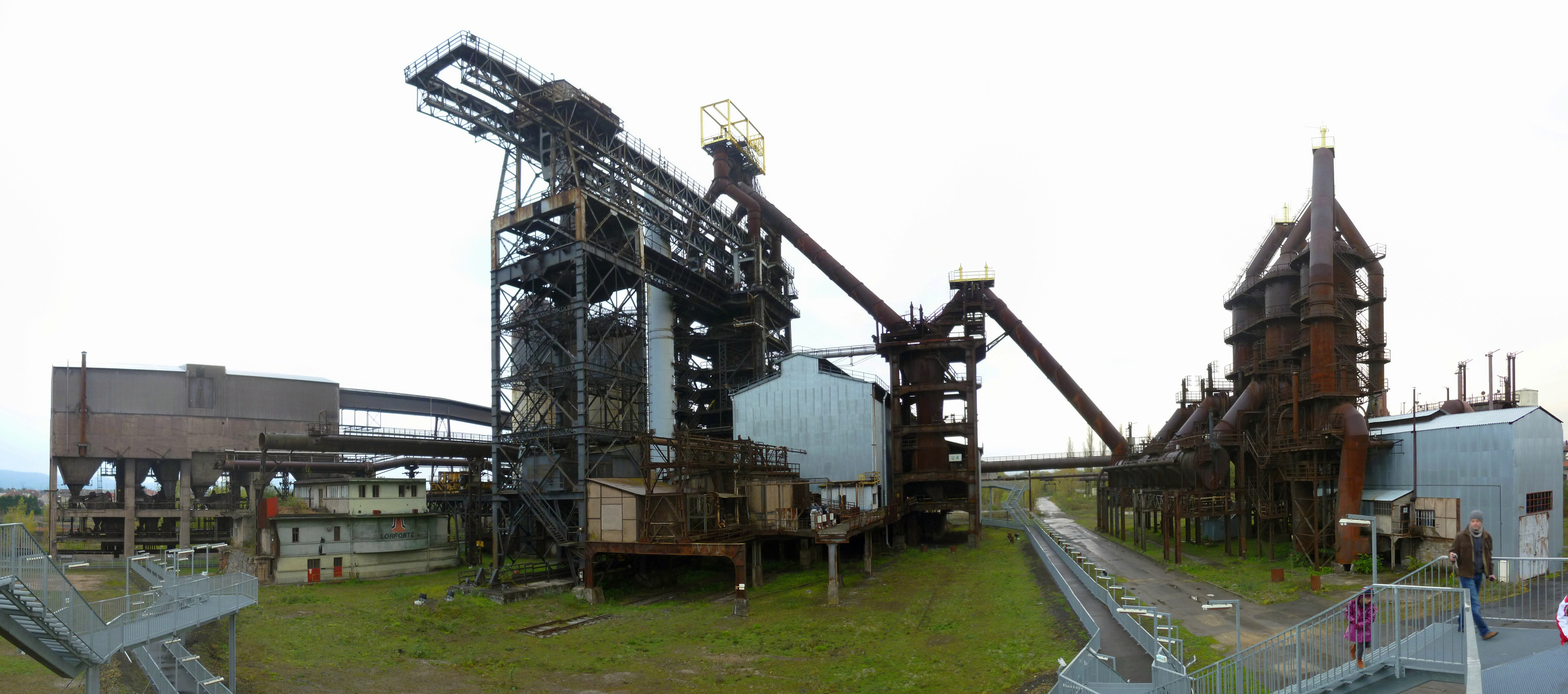 General view of U4 blast furnace (Uckange, France) from the panoramic foot bridge. Panorama created with Hugin from 6 wide angle pictures (Panasonic ZX1).